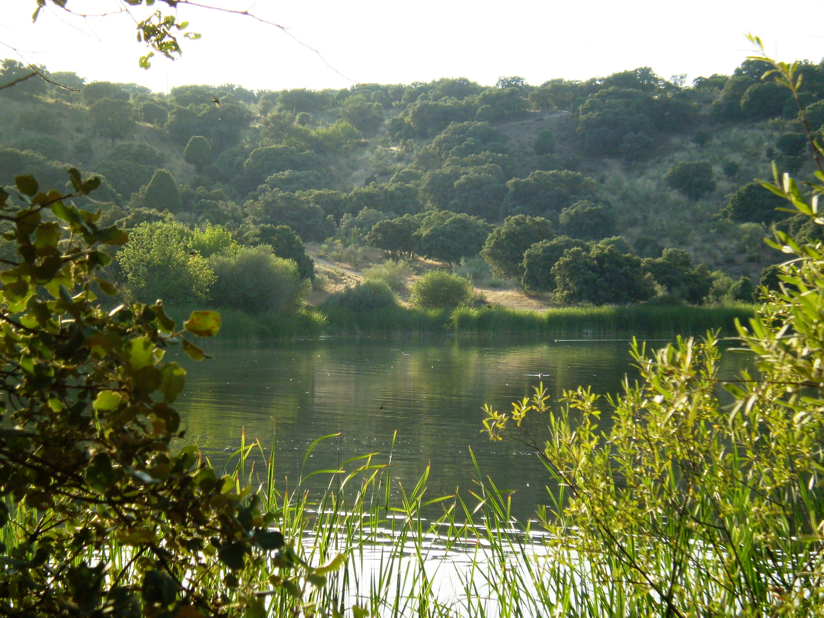 Cerro Alarcón Reservoir, over Perales River. Community of Madrid, Spain